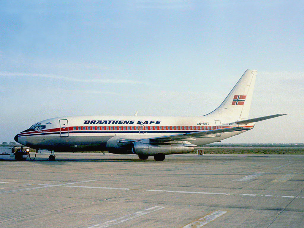 Braathens SAFE Boeing 737-205/Adv LN-SUT at Faro Airport